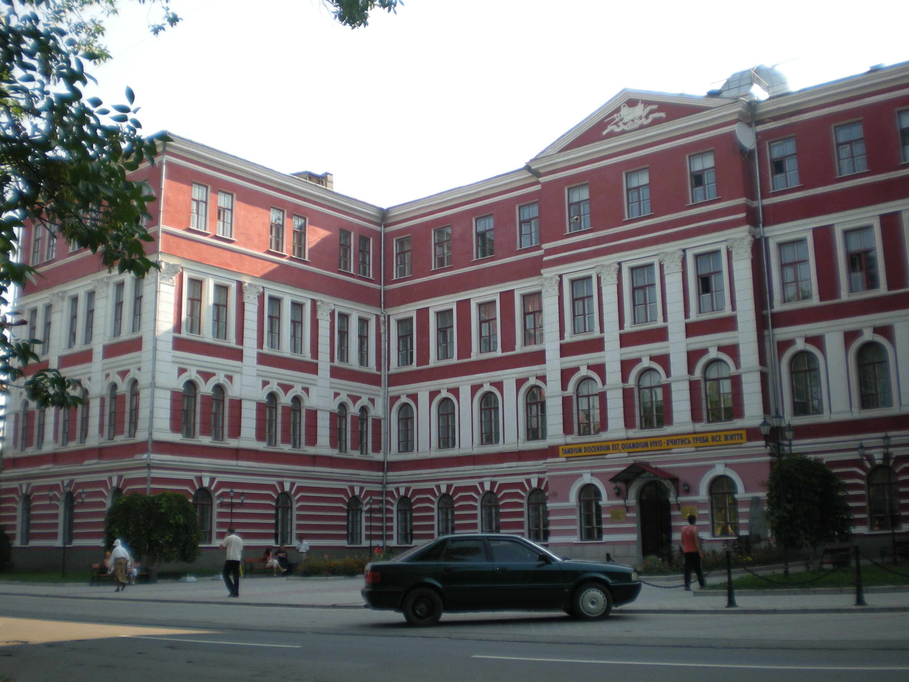 Kamieniec Podolski national university